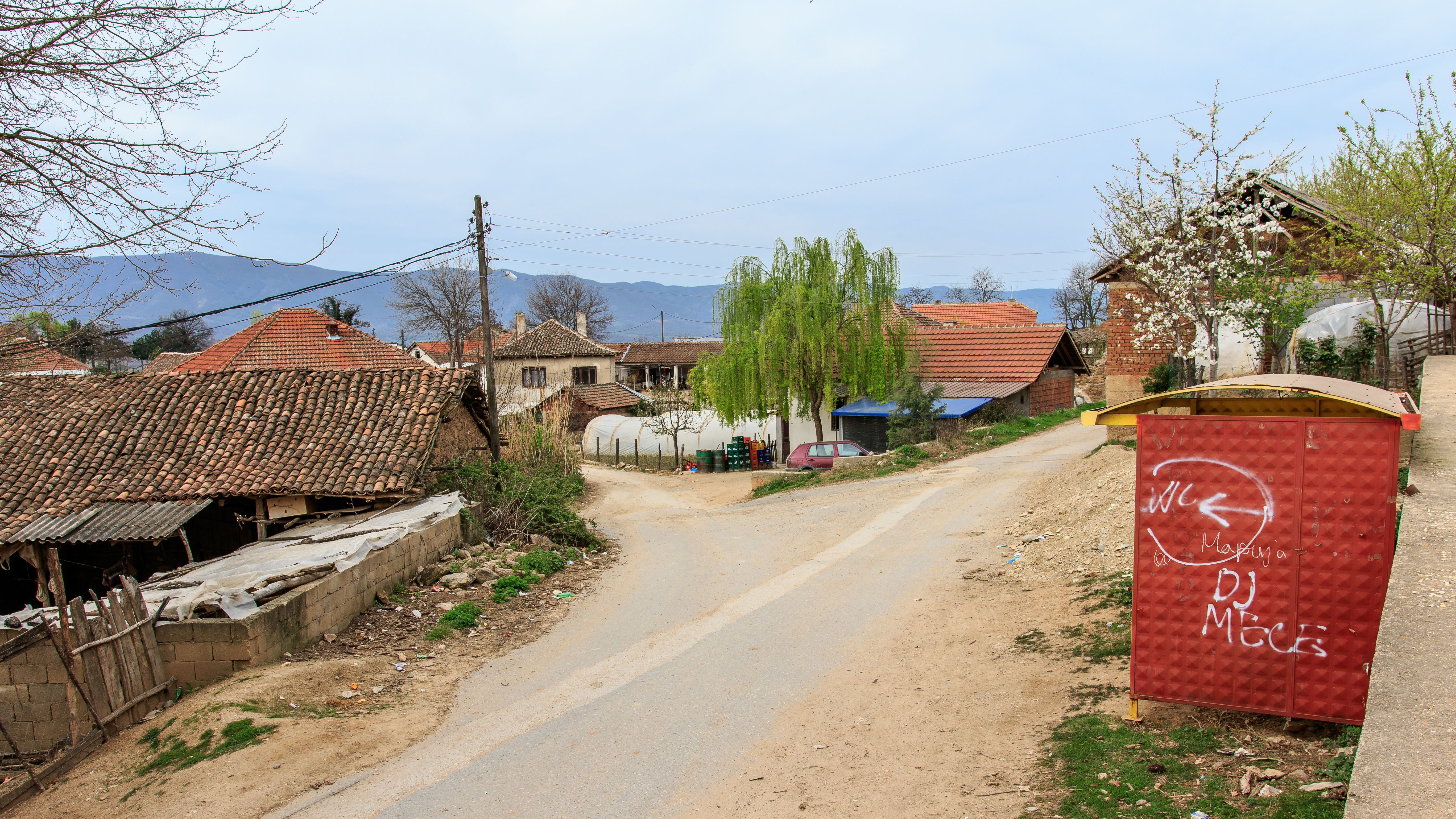 Street in the village Gabrevci